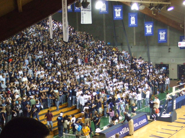 villanova student section Summary villanova student section Captioned As { }